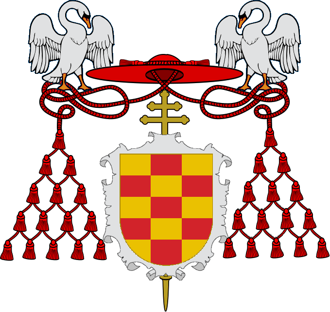 Coat of arms of cardinal Francisco Jiménez de Cisneros